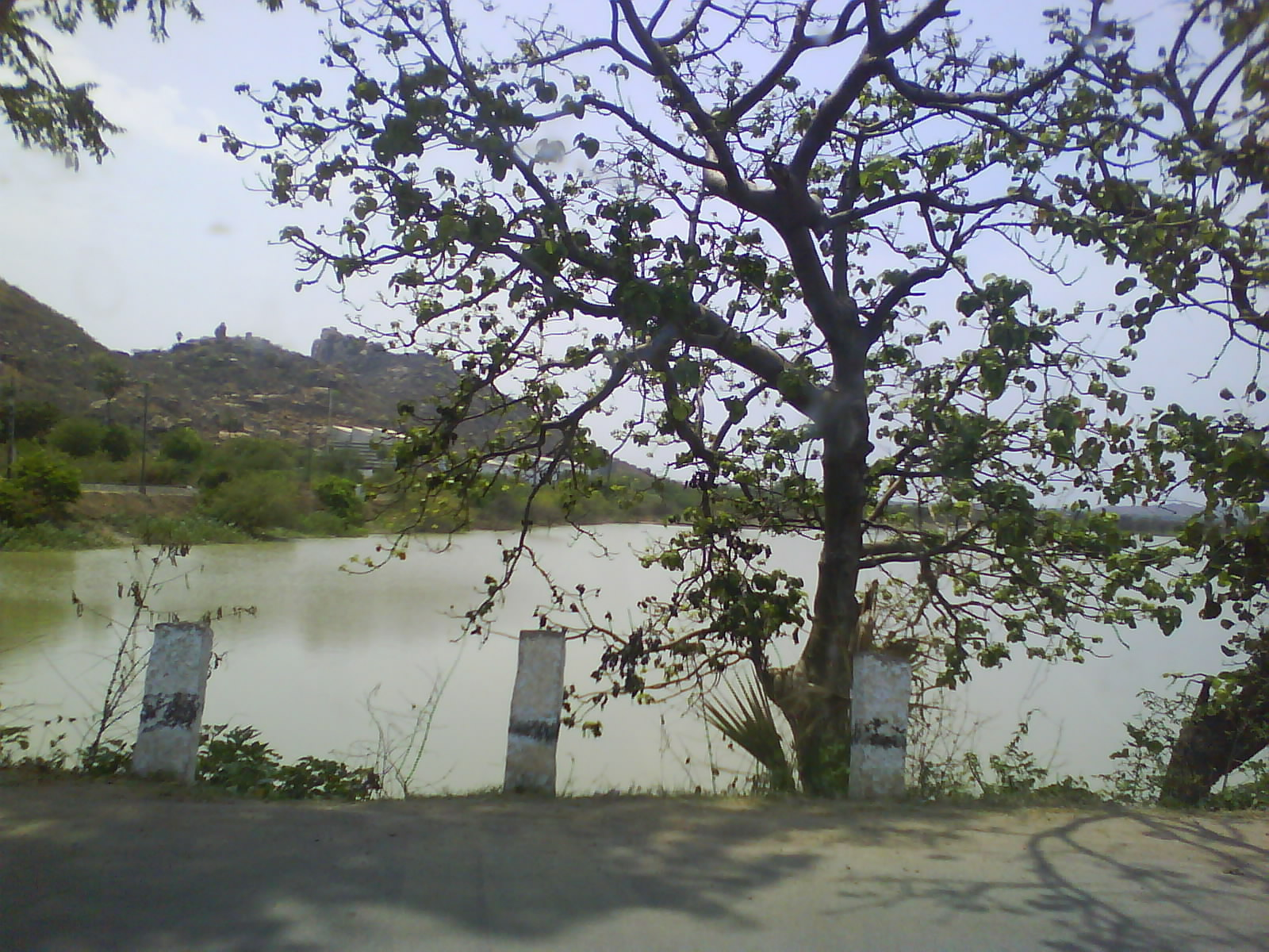 Yadagirigutta, Nalgonda district, Andhra Pradesh, India, This is a lake on the road towards Yadagrigutta Temple.